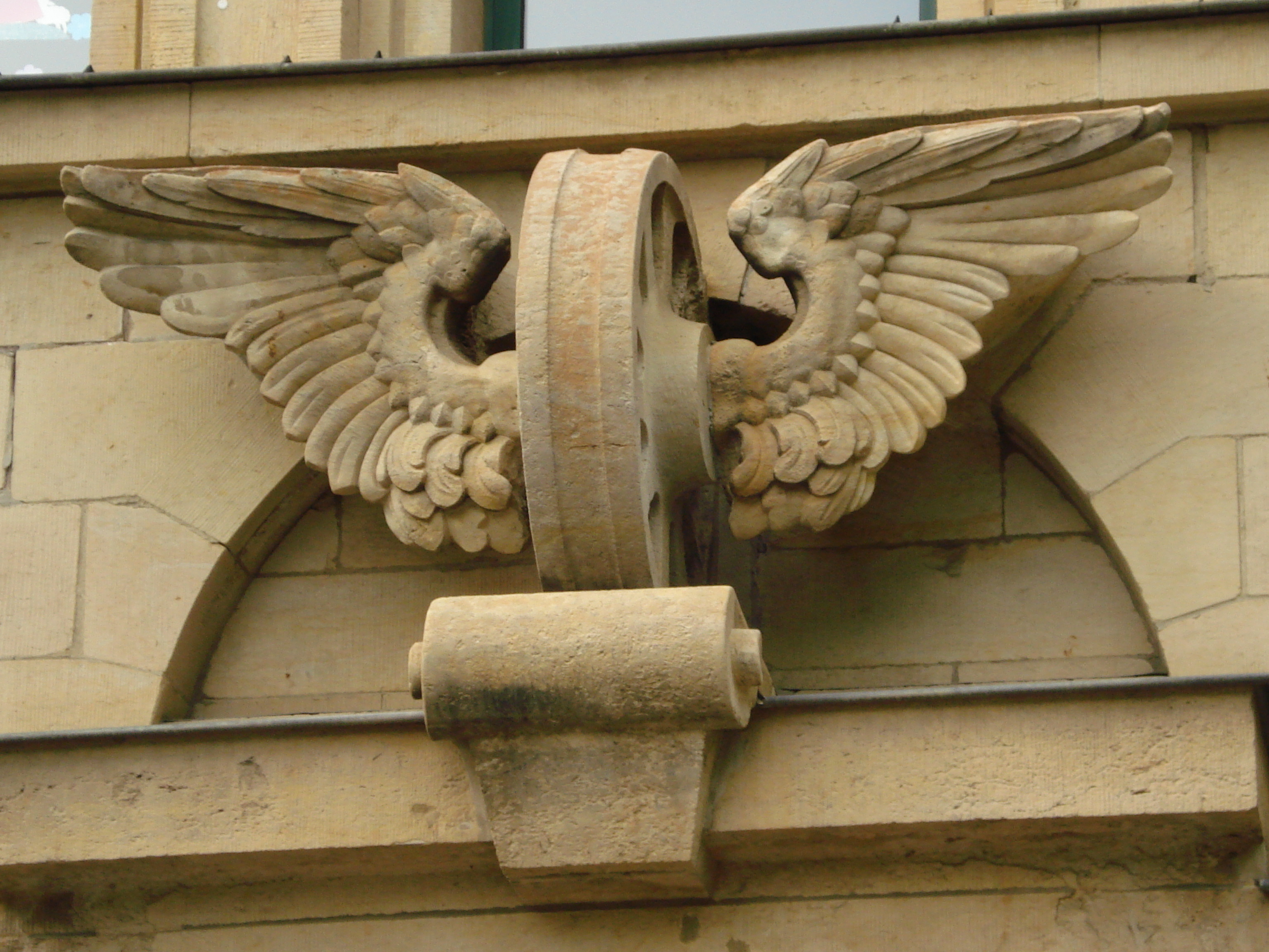 Plastic of the German Reichsbahn in Dresden, Ammonstraße.